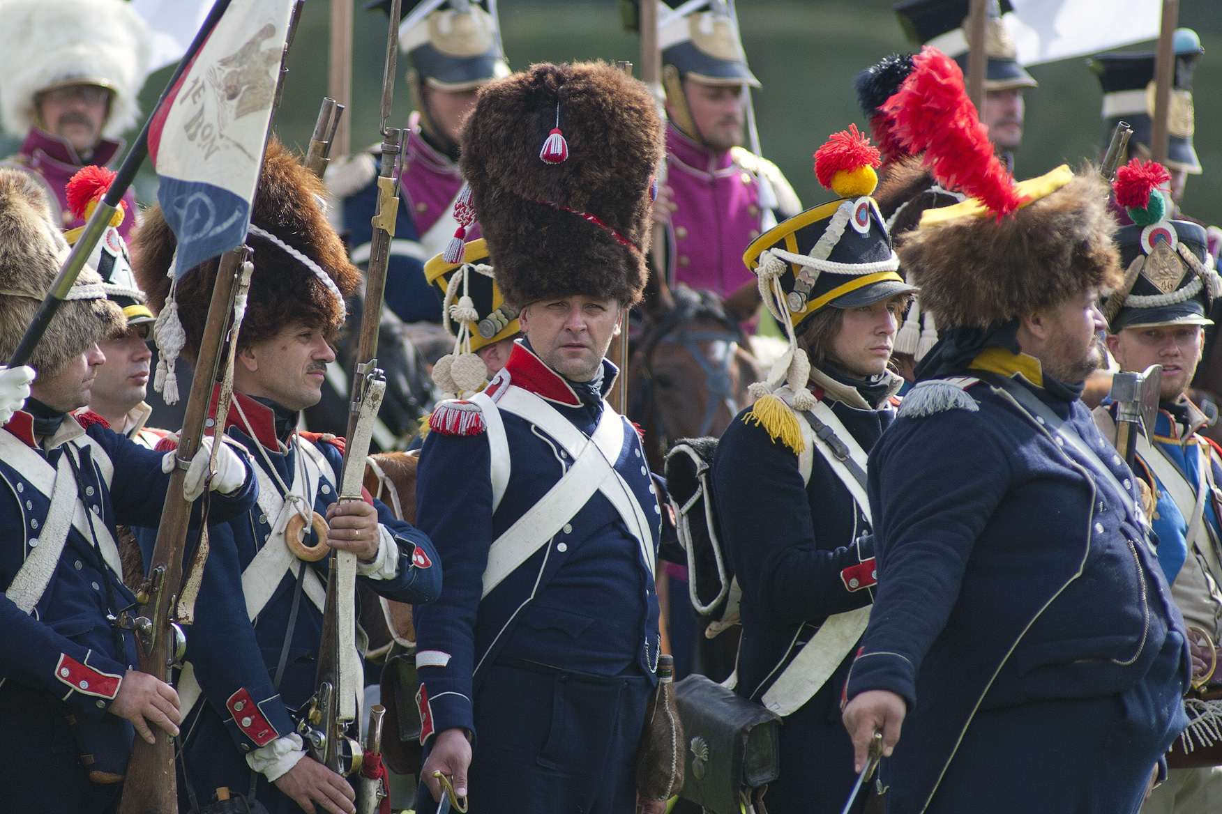 Historical reenactment of 1812 battle near Borodino, 2011